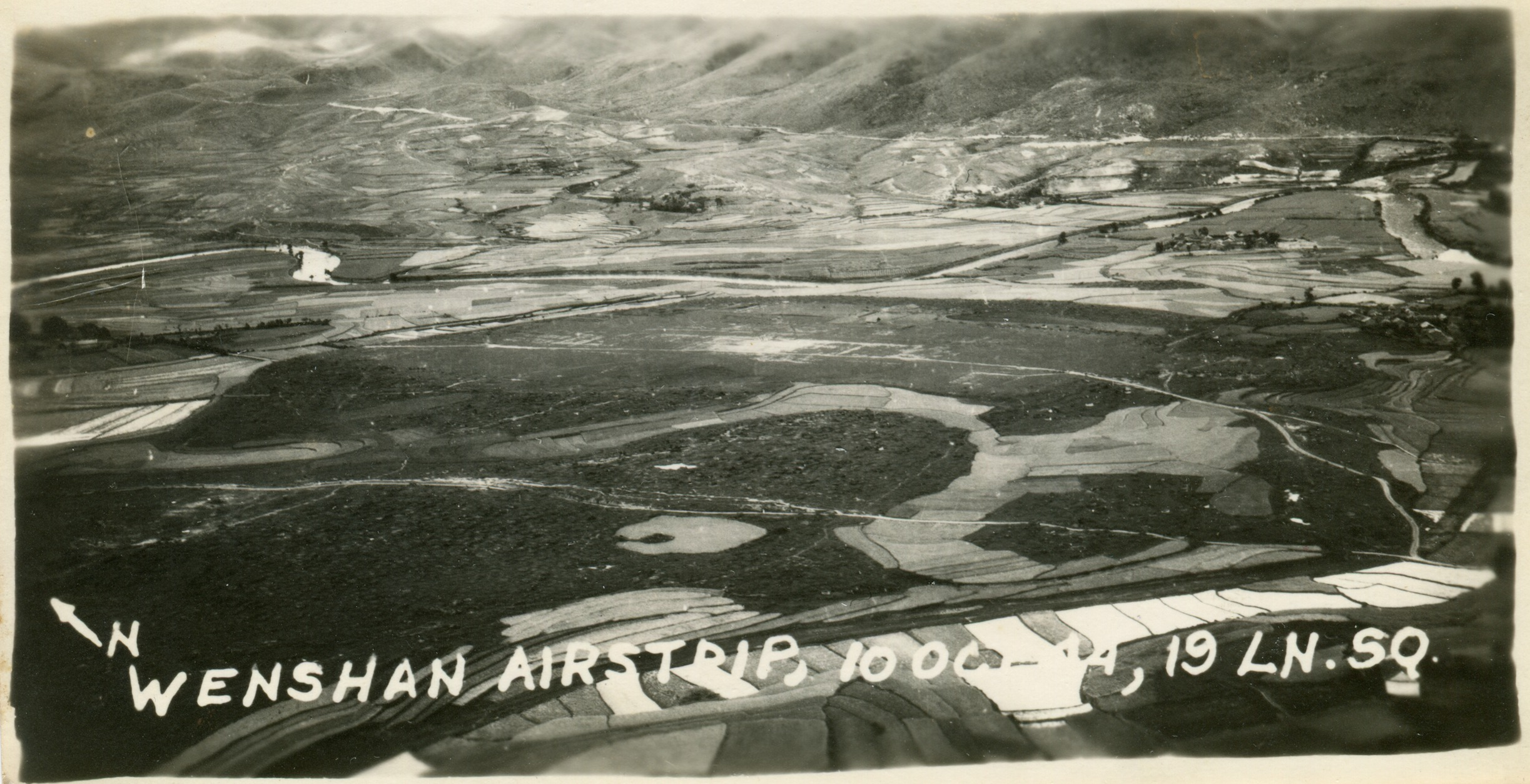 Scan of an antique photograph of 'Wenshan Airstrip' dated 10 Oct 1944.